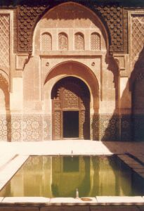 A patio of the madrasa. Ben Youssef Medrassa. Srpskohrvatski / српскохрватски: Dvorište madrase.